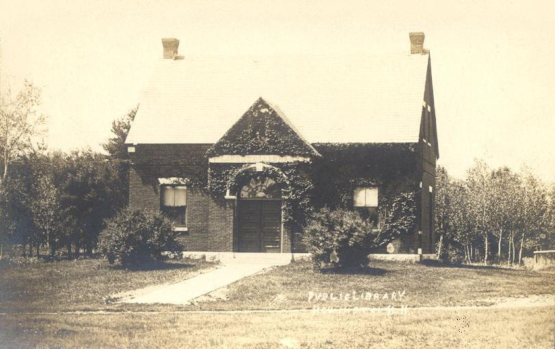 Langdon Free Public Library, Newington, New Hampshire; from a c. 1910 postcard. It was built in 1892 with a gift from Woodbury Langdon, descendant of the famous Portsmouth family, and owner of an estate at Fox Point.